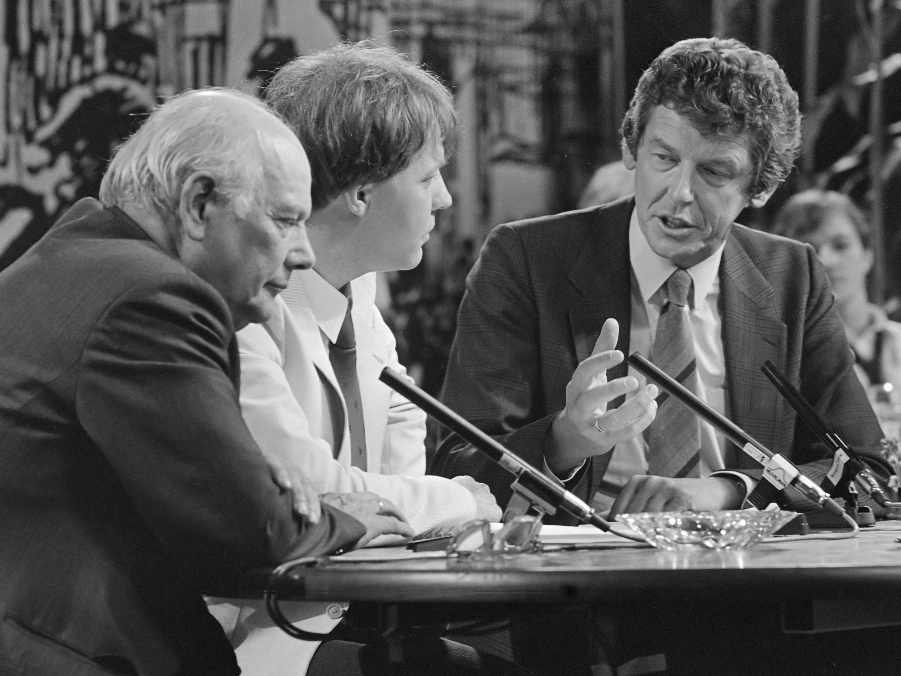 Recordings of the Dutch television program “1st of May”, broadcasted by the public channel VARA with some left wing politicians: Den Uyl debating with the president (Wim Kok) of the biggest union